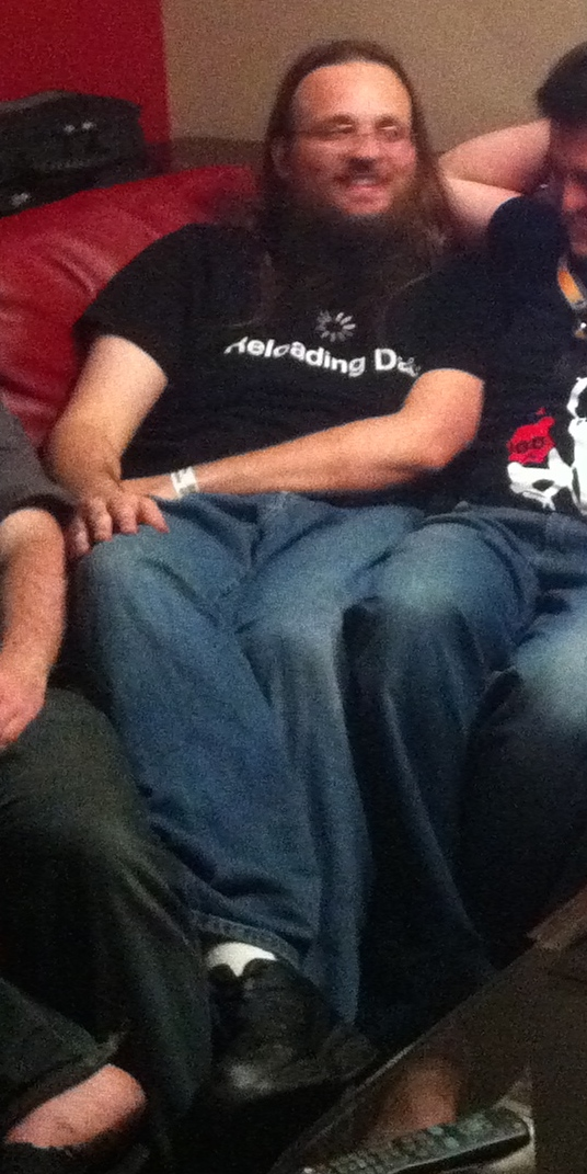 A photo of several people involved in the iOS jailbreaking community, including saurik, p0sixninja, and geohot, who have contributed to building jailbreaking tools such as AppSnapp, greenpois0n, Absinthe, purplera1n, blackra1n, limera1n, and others. Taken during Def Con 2011. Note about personality rights for this photo for limited uses: this photo (and nearly identical photos taken at the same time by the same person with different phones) has already been publicly published, including on the Twitter accounts of two of the people in the photo, and on blog posts like this one.